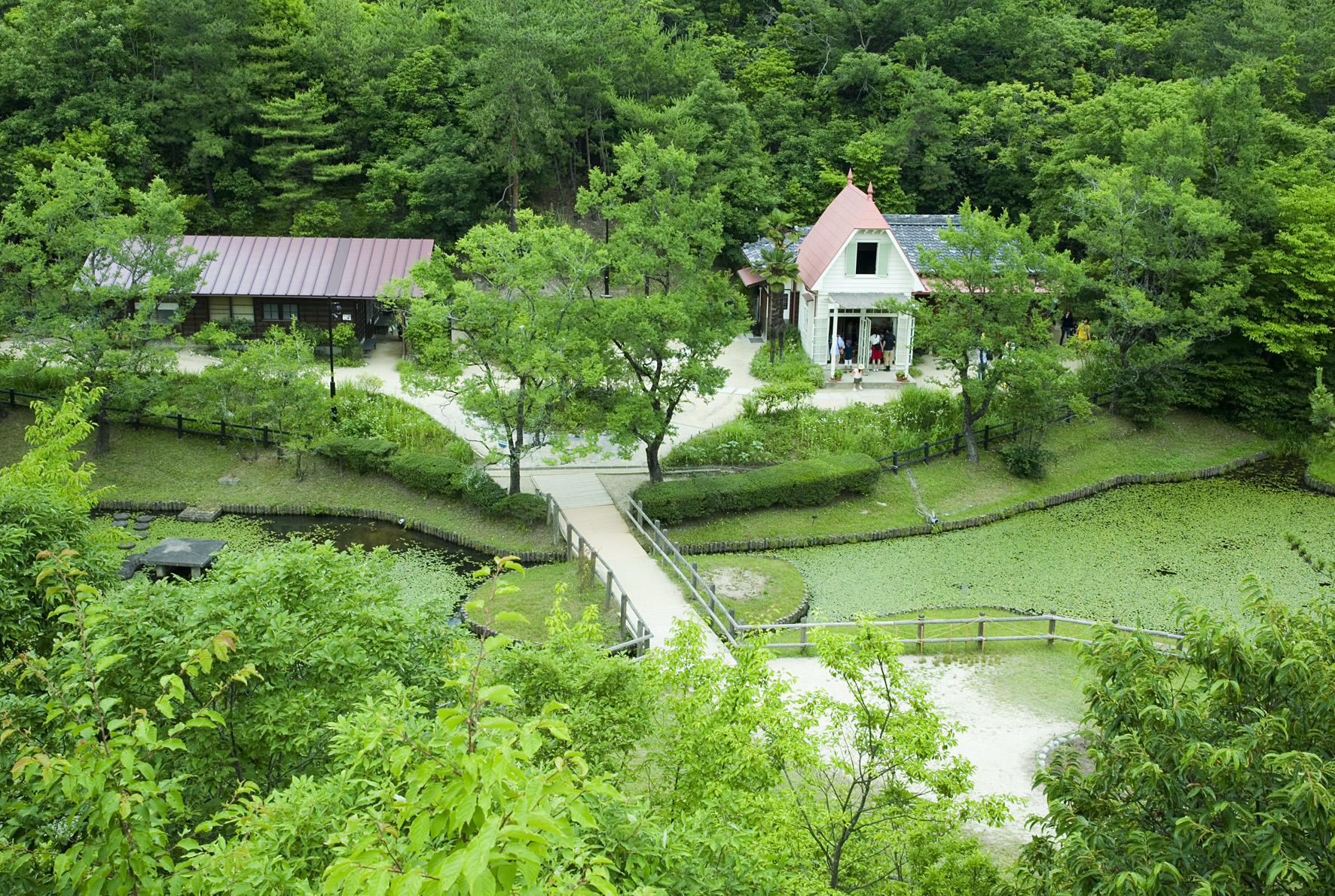 Satsuki and Mei’s House in Aichi Expo Memorial Park (Morikoro Park)